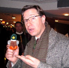 Picture taken by Michaela Murphy and posted with permission; original found at She owns the copyright and said the following: "I grant permission to copy, distribute and/or modify these images under the terms of the GNU Free Documentation License, Version 1.2 or any later version published by the Free Software Foundation; with no Invariant Sections, no Front-Cover Texts, and no Back-Cover Texts."